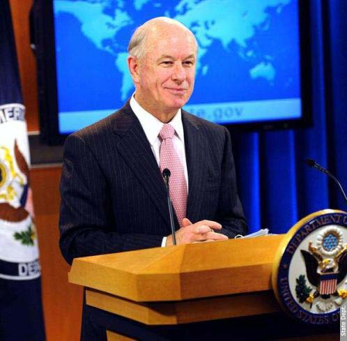 Philip J. Crowley as Assistant Secretary of State for Public Affairs in 2010